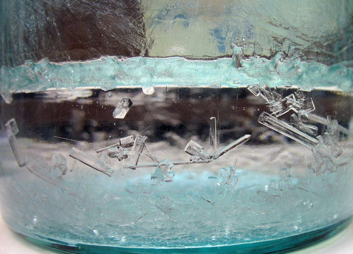 Crystals of tert-butanol